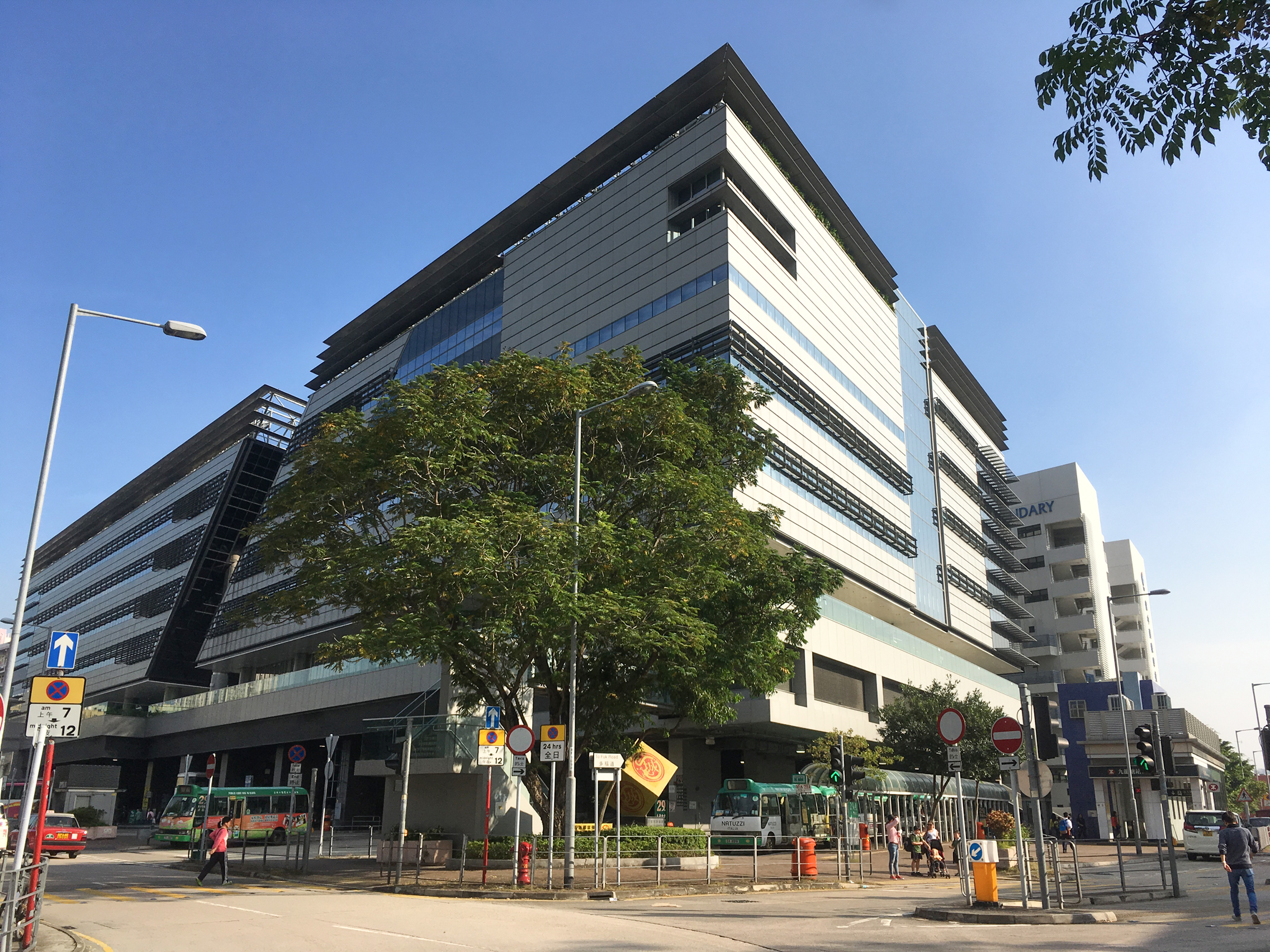 EDB Kowloon Tong Education Services Centre